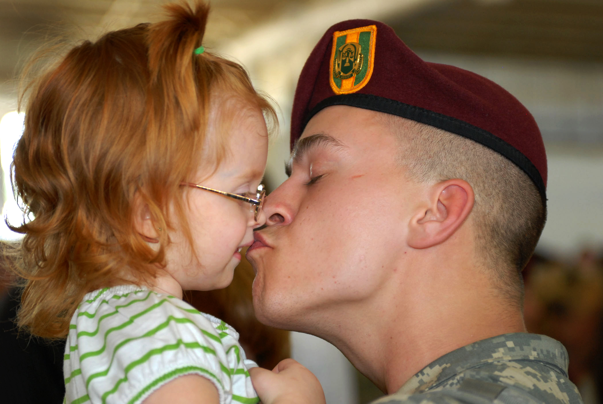 Spc. Andy Cogswell, a military police with the 65th Military Police Company, kisses his daughter for the first time in 15 months Saturday at Green Ramp on Pope Air Force Base. The company of 160 Soldiers was welcomed home by Family and friends after a 15-month deployment in Iraq. See more at Army.mil